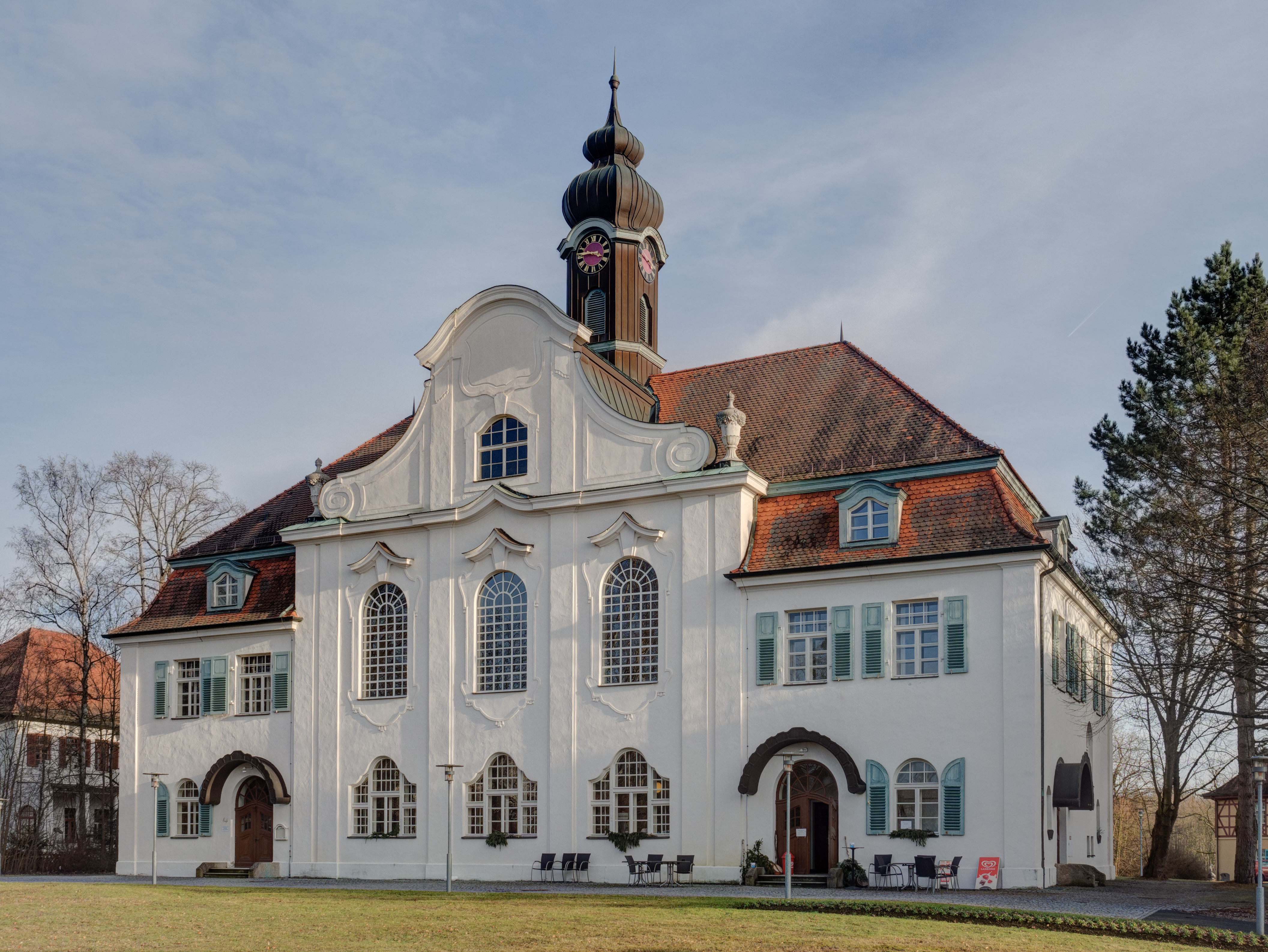 Building with church festsaal and cafe of the district hospital Kutzenberg